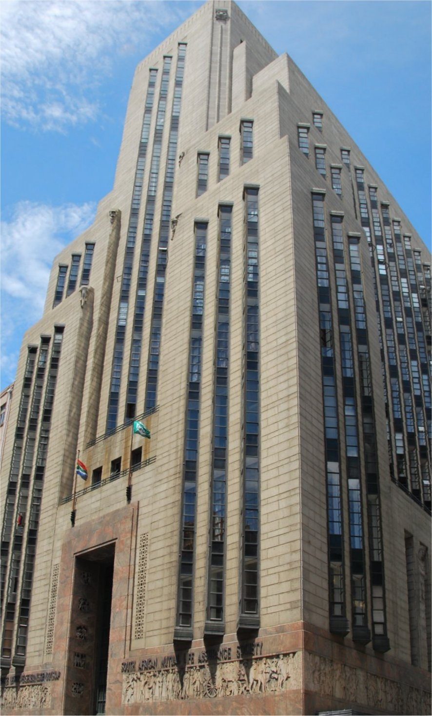 Edited version of Mutual_Building_Cape_Town_000.jpg with extraneous detail removed